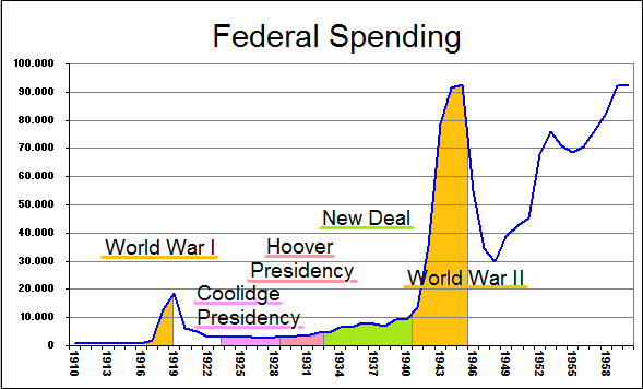 Federal spending in millions of dollars. Source: Federal Government--Receipts and Outlays